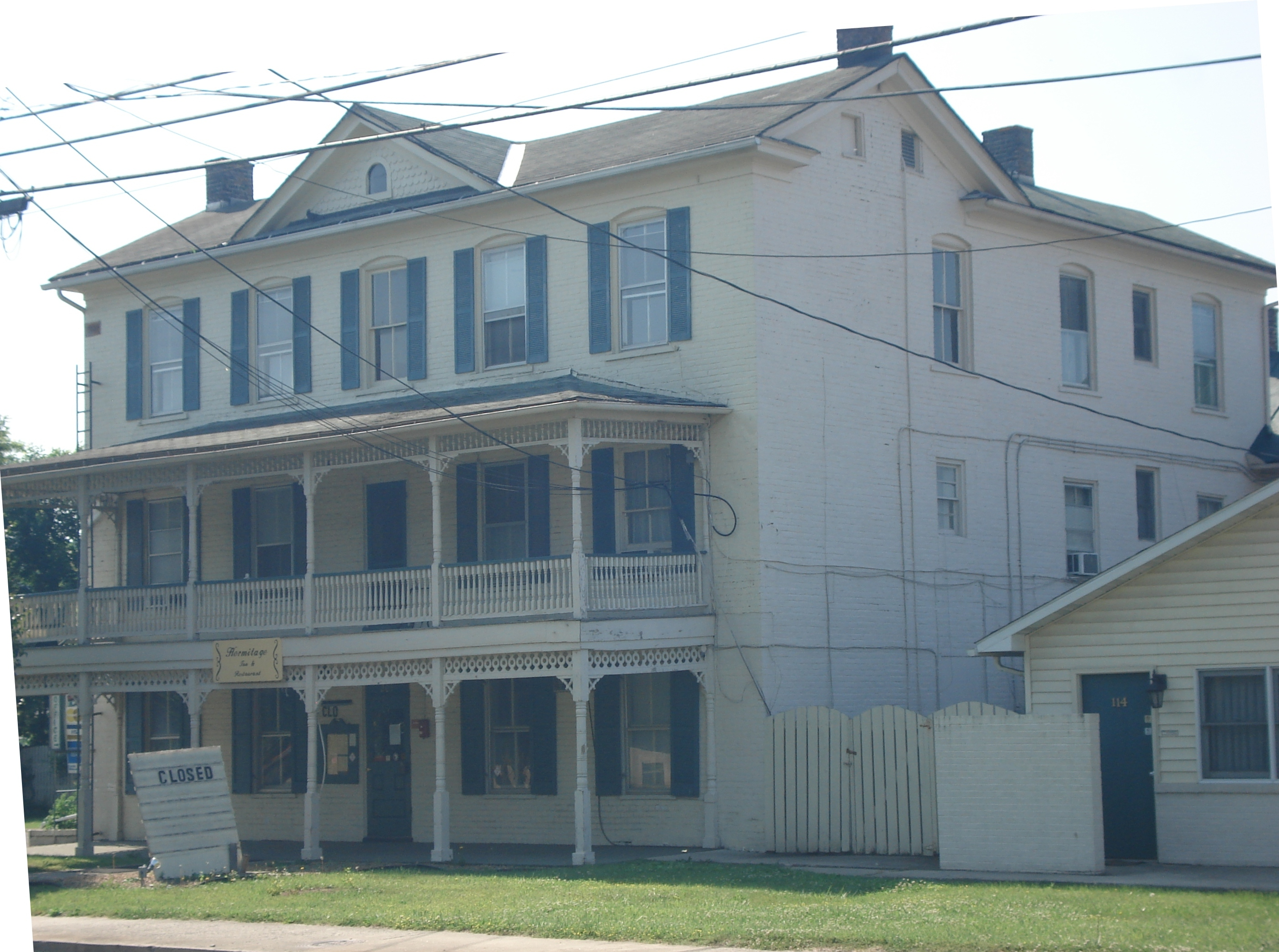 The Taylor Cunningham Hotel (Hermitage Motor Inn), Petersburg, West Virginia, USA.